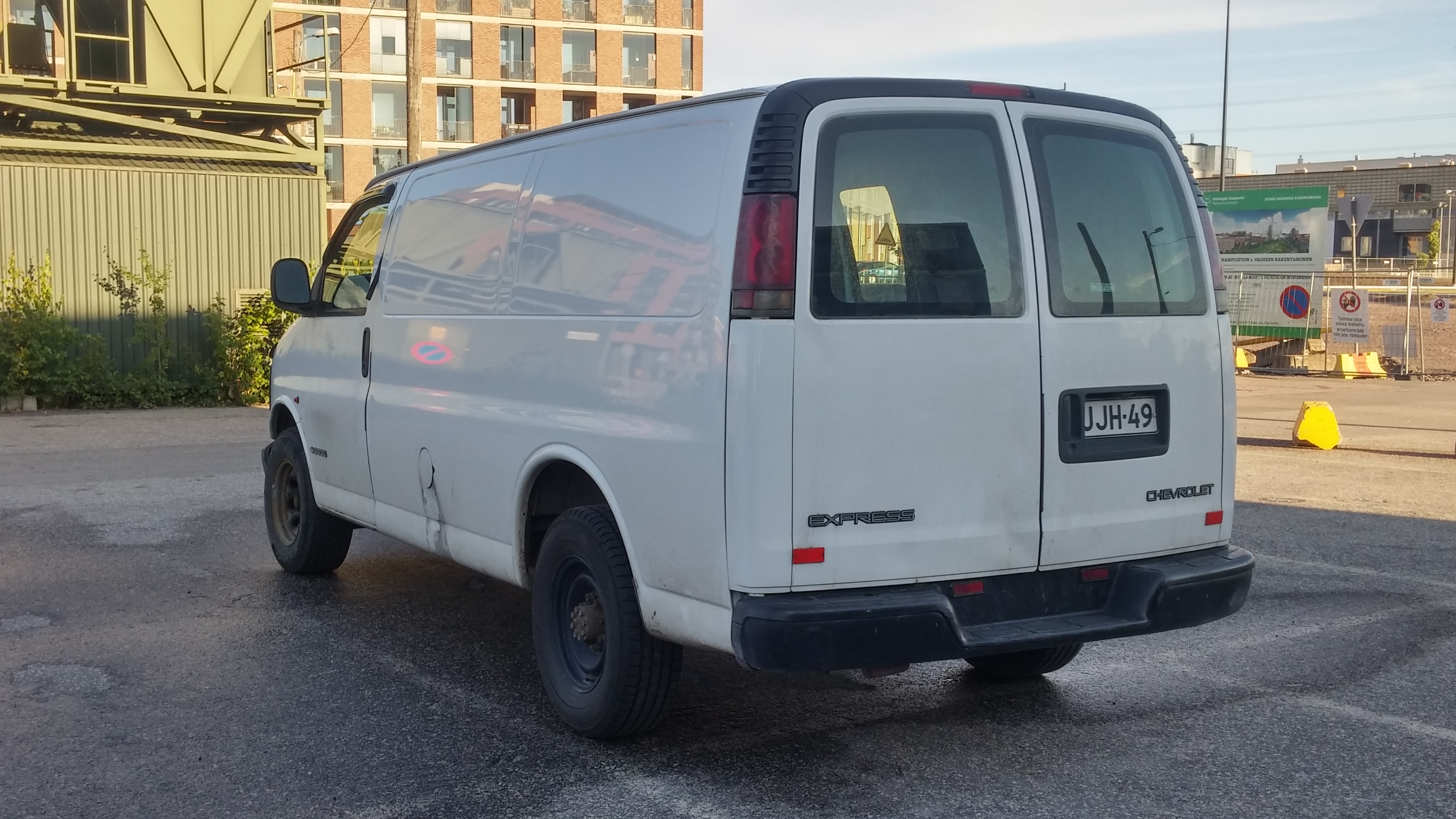 Chevrolet Express